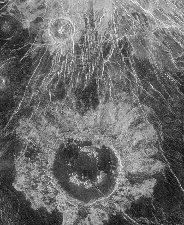 Magellan radar image of Wheatley crater on Venus. This 72 km diameter crater shows a radar bright ejecta pattern and a generally flat floor with some rough raised areas and faulting. The crater is located in Asteria Regio at 16.6N,267E. (Portion of Magellan C1-MIDR 15N266;1,framelets 21 and 22) Location & Time Information Date/Time (UT): N/A Distance/Range (km): 391.9 Central Latitude/Longitude (deg): +14.97/265.94 Orbit(s): 1797-1893 Imaging Information Area or Feature Type: Crater Instrument: Synthetic Aperture Radar Instrument Resolution (pixels): 240 x 240, 8 bit Instrument Field of View (deg): 2.1 x 2.5 Filter: N/A Illumination Incidence Angle (deg): 44.4-45.7 Phase Angle (deg): 0 Instrument Look Direction: Left Surface Emission Angle (deg): 44.4-45.7 Ordering Information CD-ROM Volume: MG_0041 NASA Image ID number: C1-15N266;1 Other Image ID number: N/A NSSDC Data Set ID (Photo): 89-033B-01O NSSDC Data Set ID (CD): 89-033B-01C Other ID: N/A